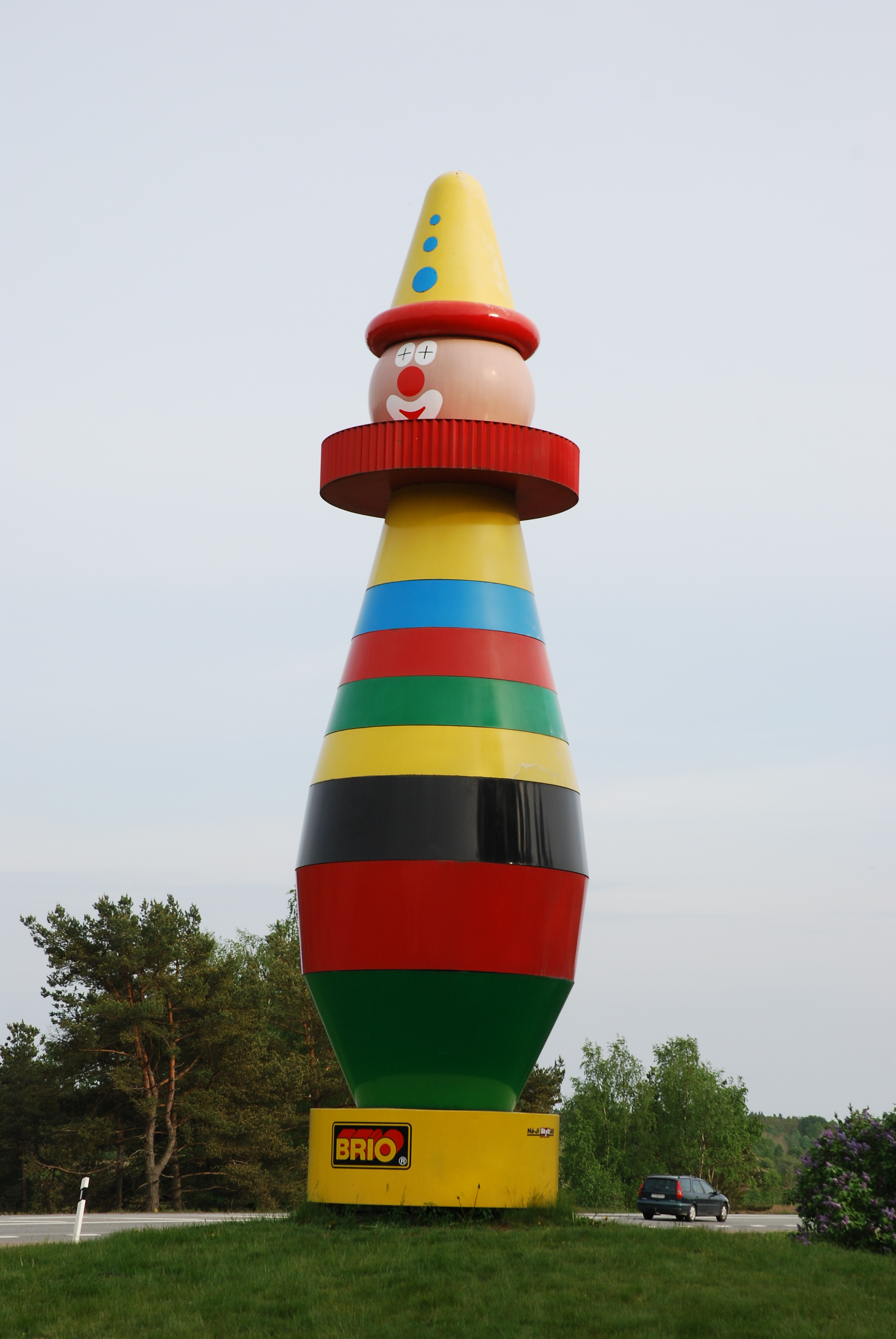 Sculpture of giant Brio toy, Osby, Sweden